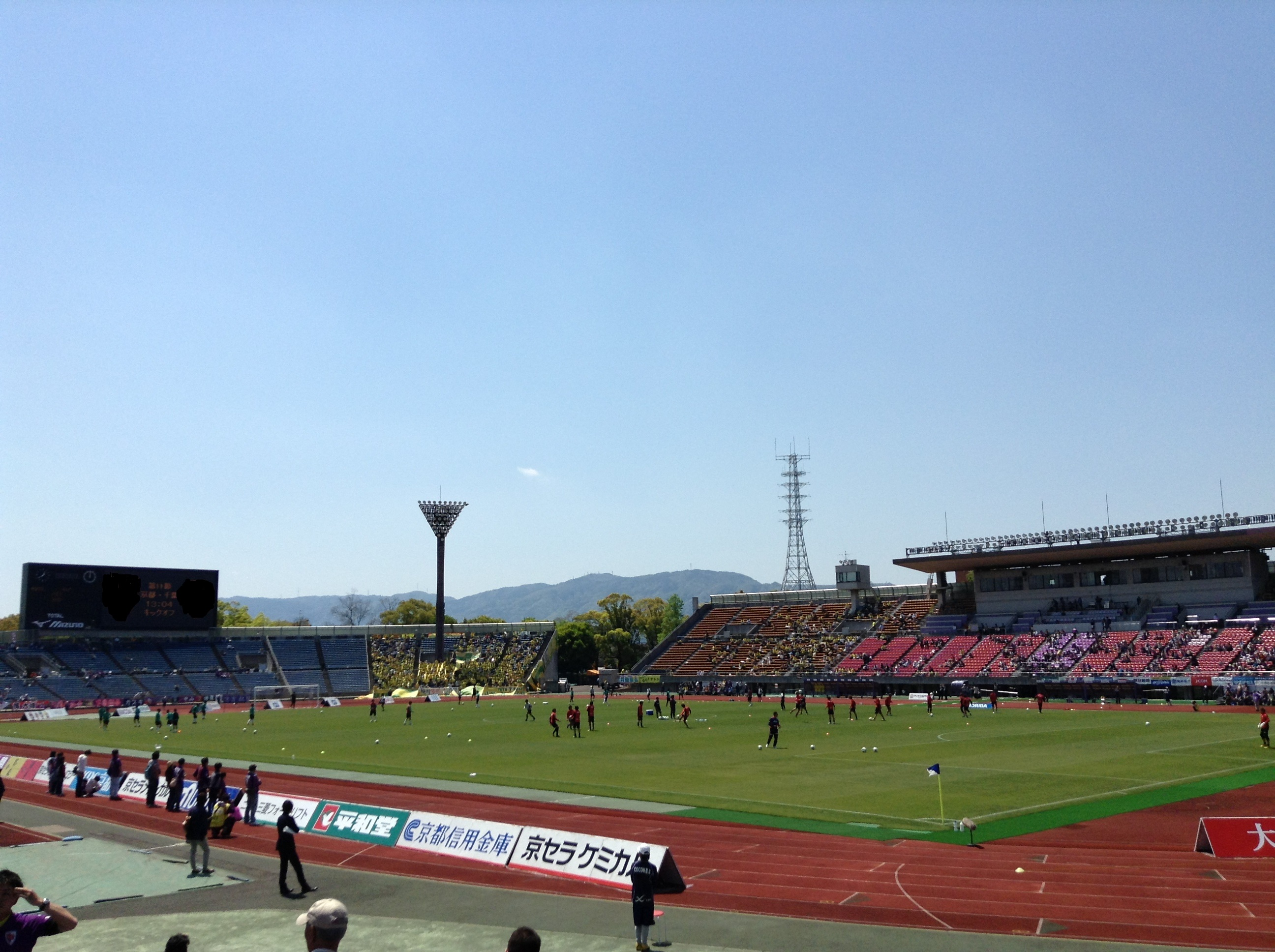 J. League Division 2 , Kyoto Sanga F.C. vs JEF United Ichihara Chiba , 28 April, 2013.